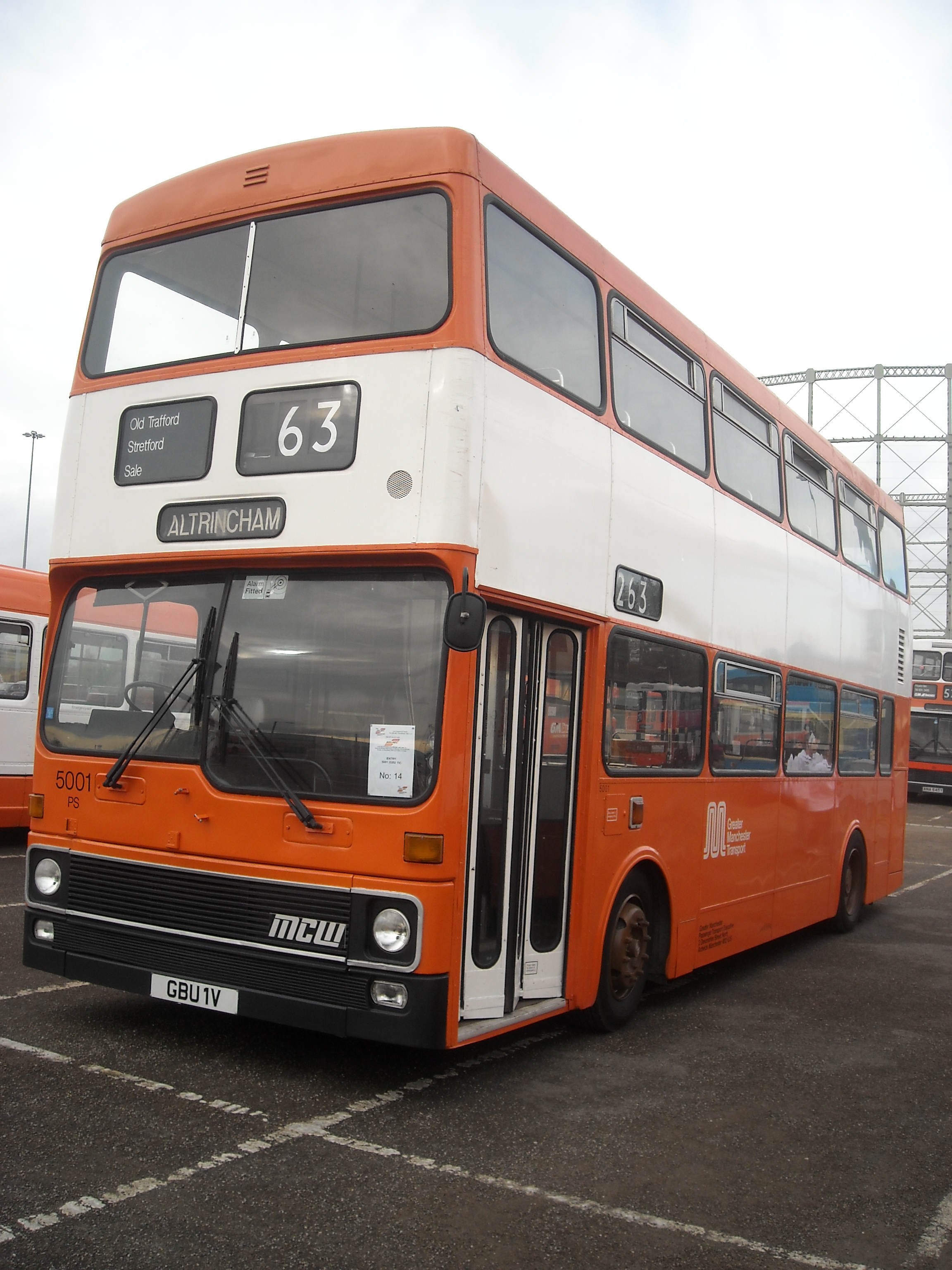 Taken at Sportcity on Saturday 31st October, this was new in October 1979 and was restored to this original livery in late 1999